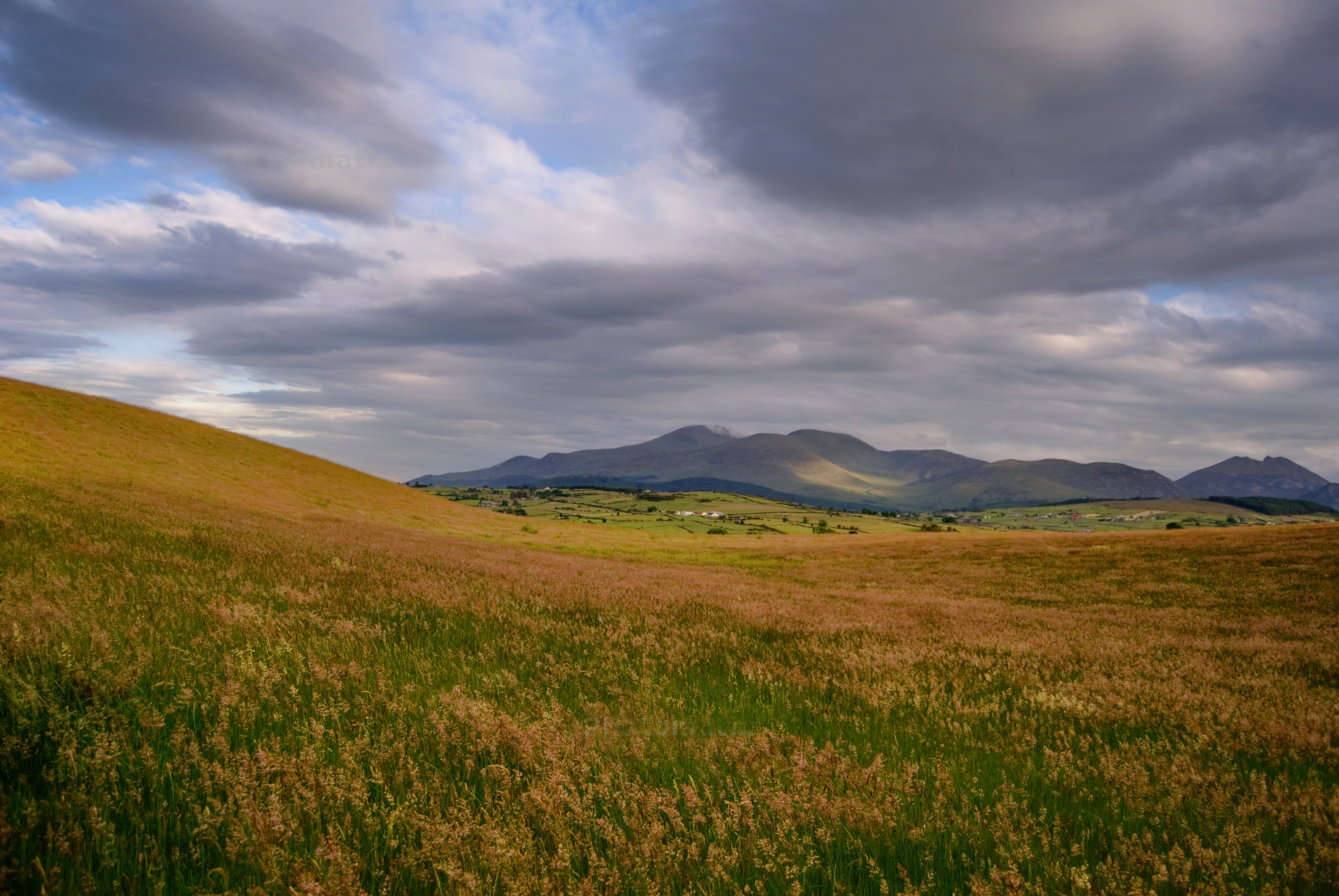 Castlewellan Forest Park at morning